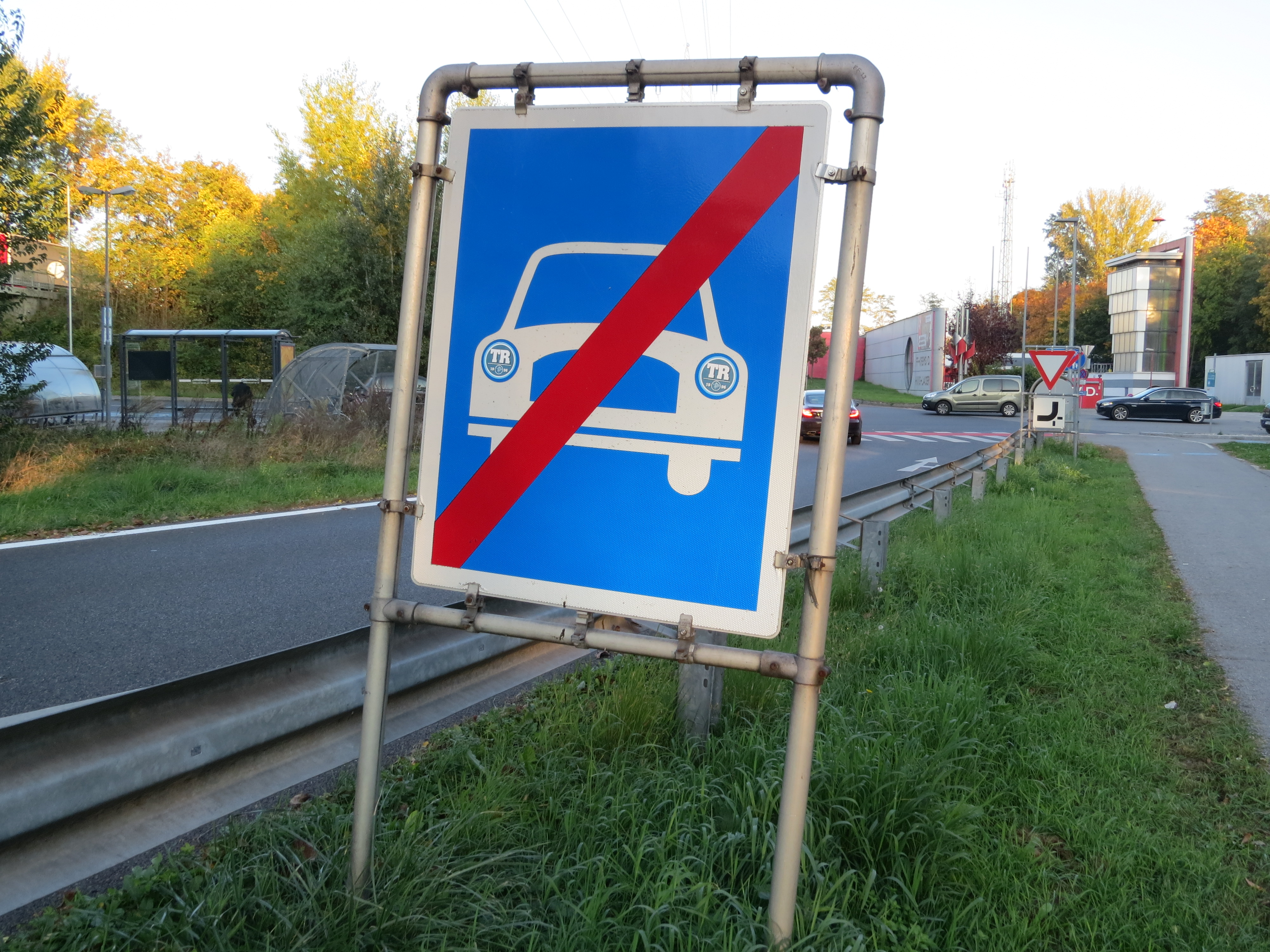 Expressway end sign with stickers of Tornados Rapid in Krems an der Donau, Austria